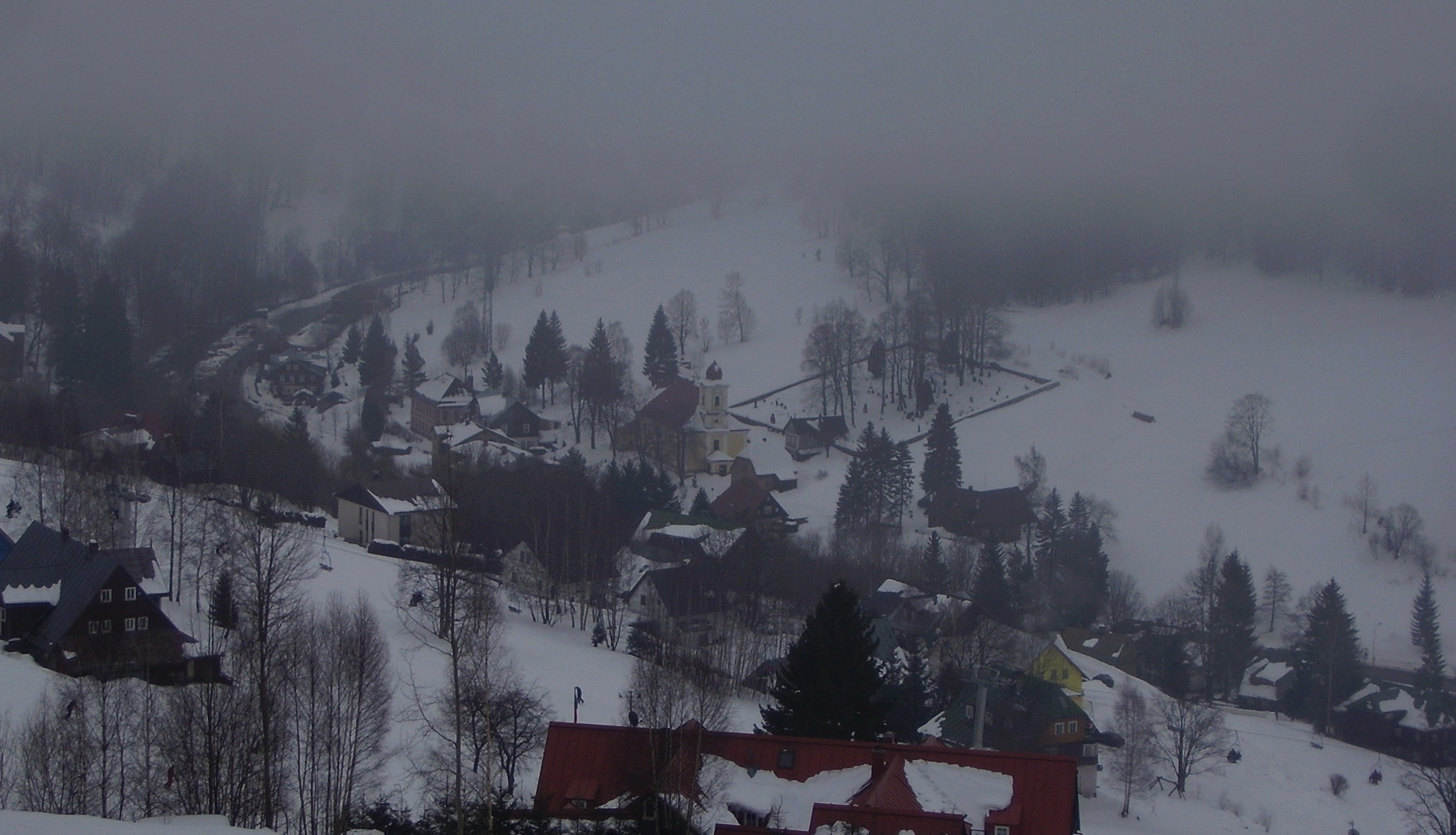 Look at Velká Úpa from Pěnkavčí vrch, Kronoše